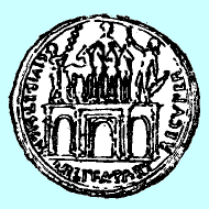 Ancient coin depicting the Arch of August in Rome